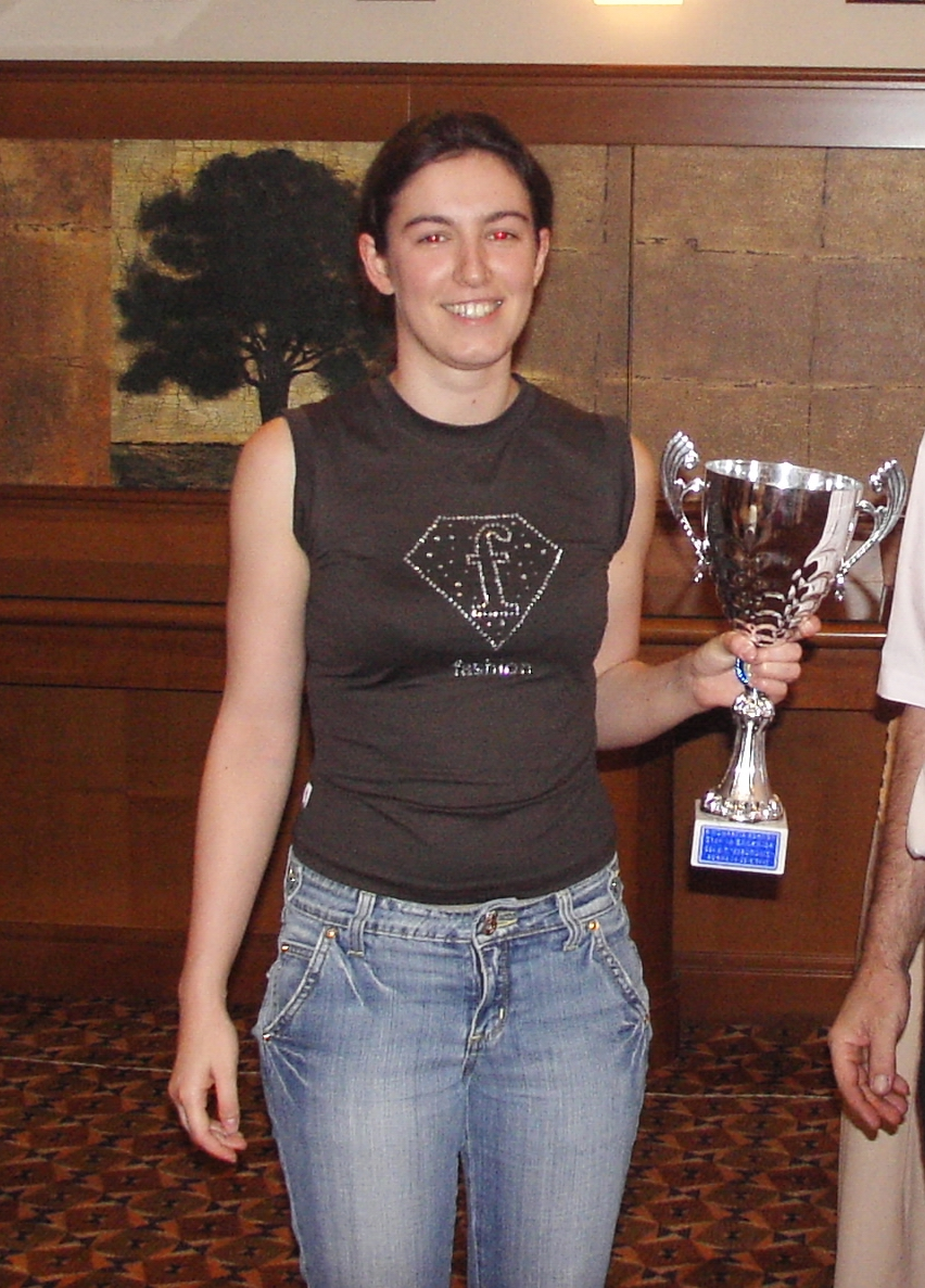 IM Jelena Dembo (Greece), Acropolis 2007